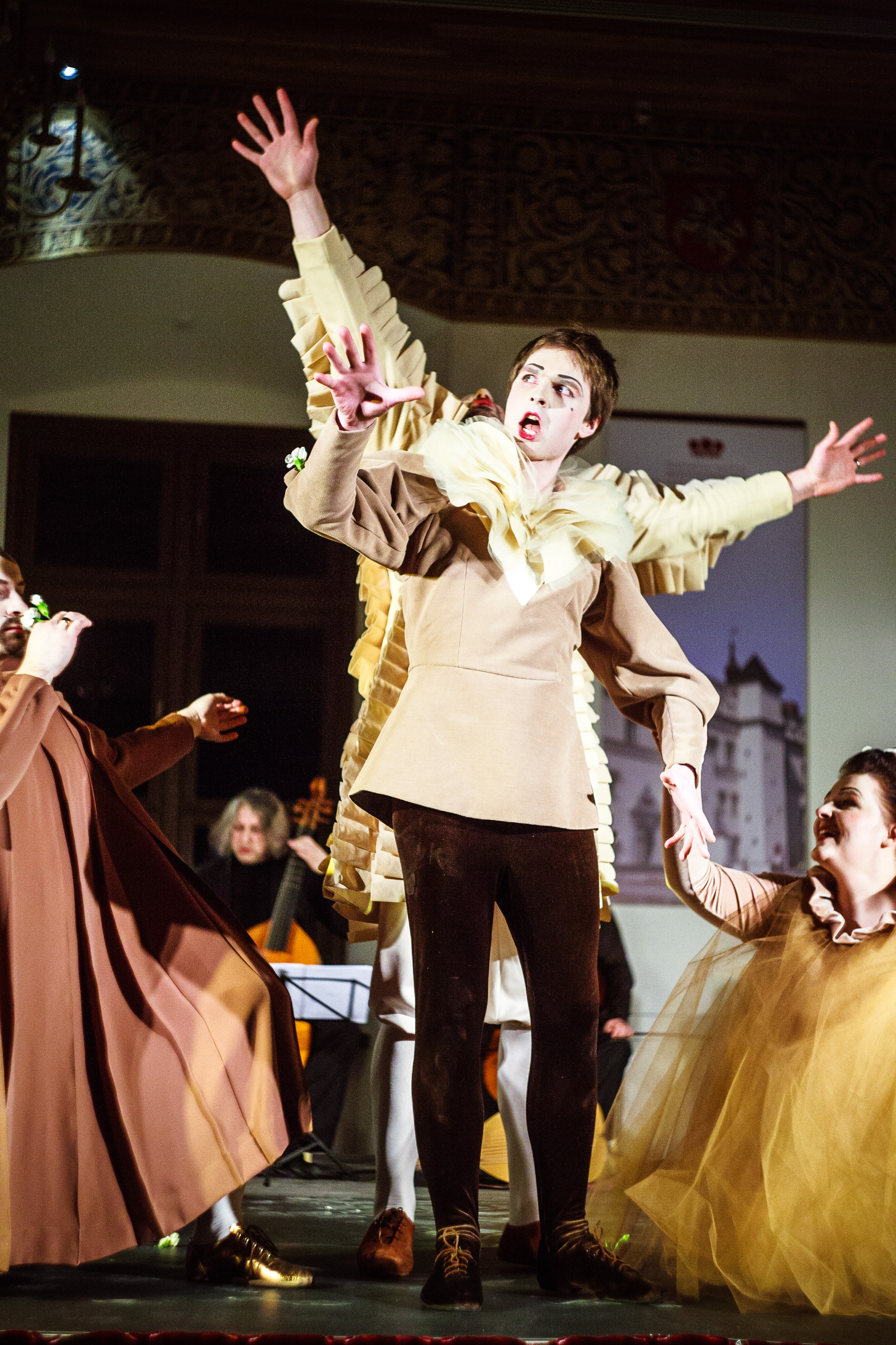 Viktoras Gerasimovas operos pastiše